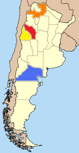 A map of Argentina, with the provinces outlined. Copyright © User:Ahoerstemeier 2004. This map violates legal regulations Argentina: Ley de la Carta [Law No. 22963].